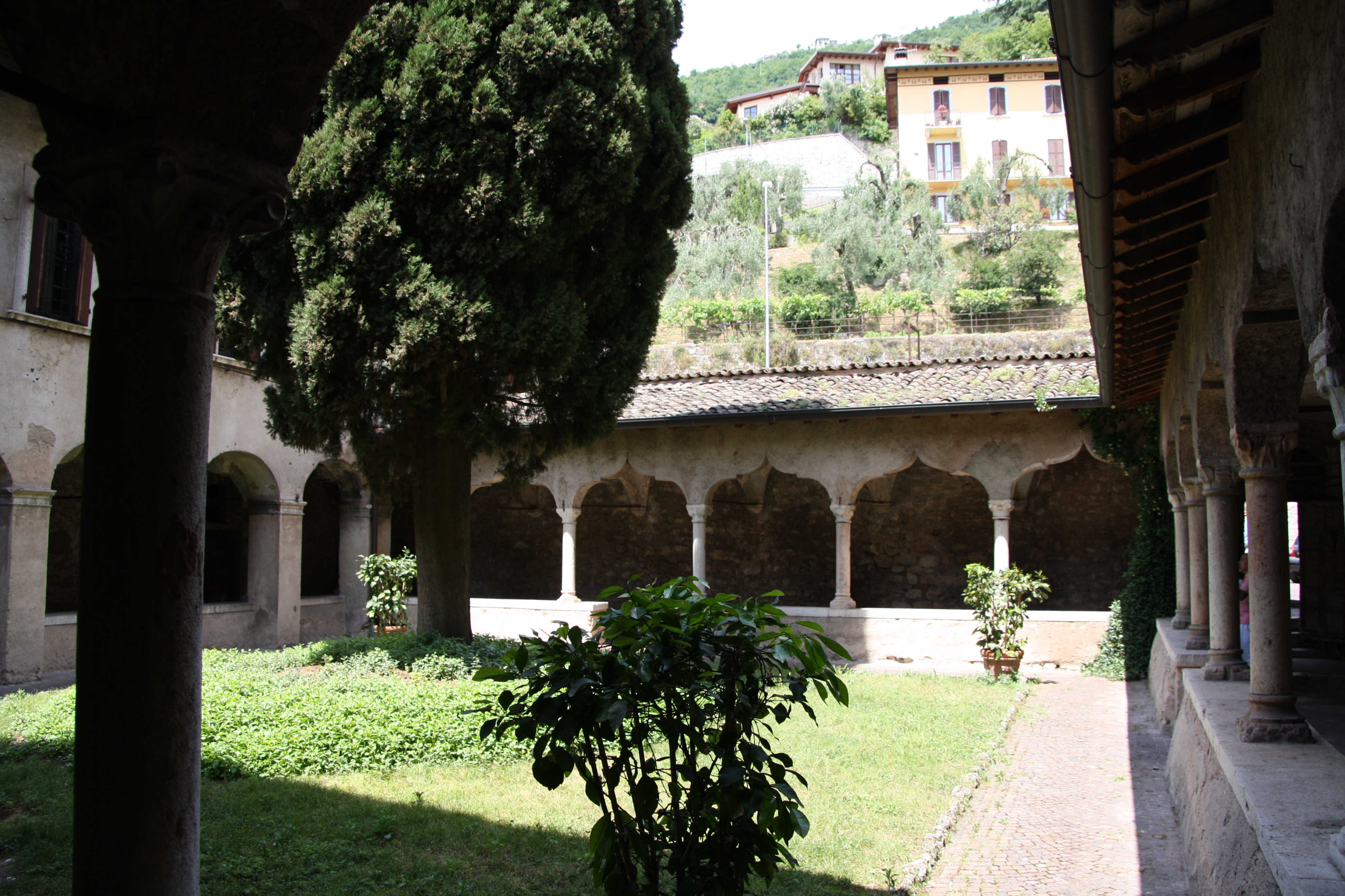 The cloister of San Francesco in Gargnano